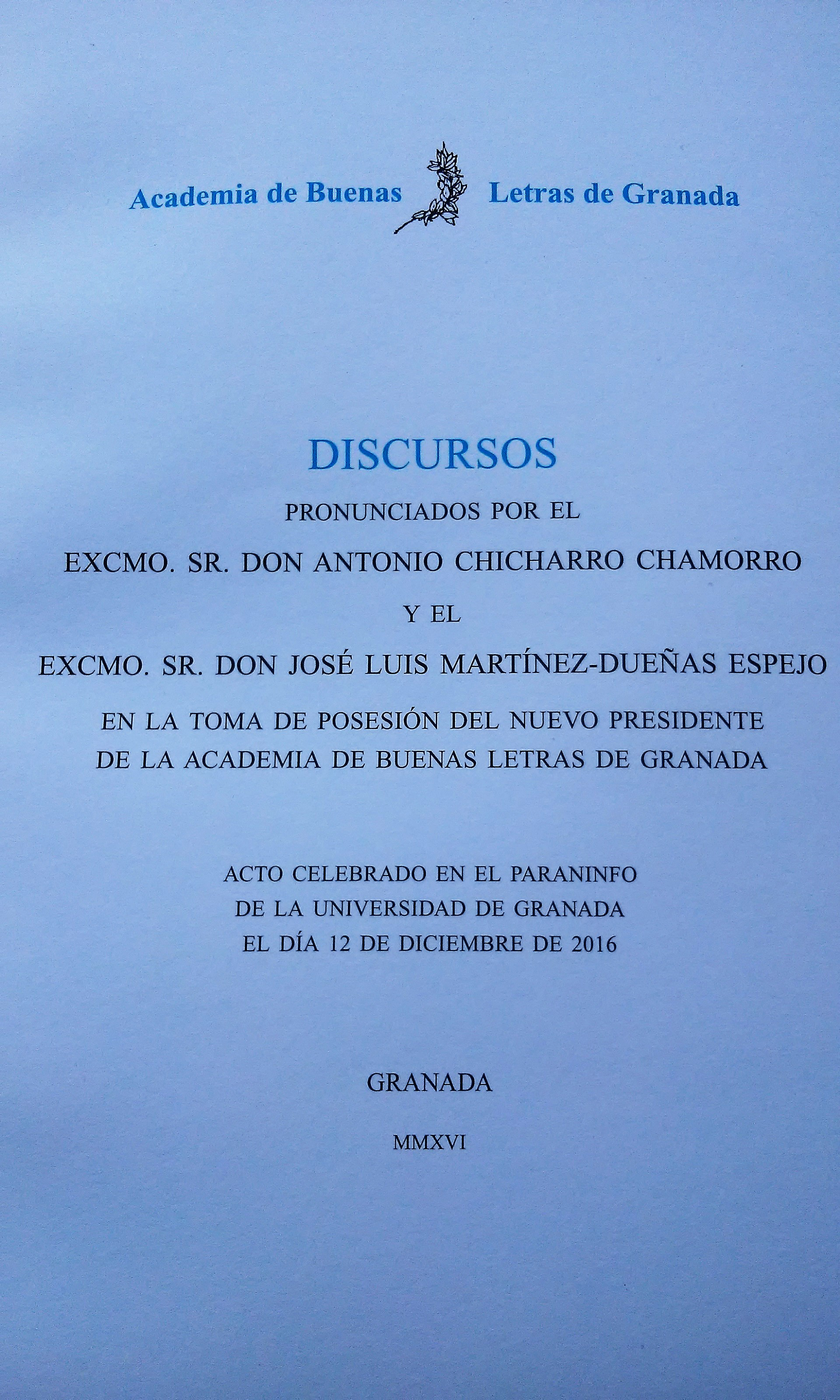 Cubierta del discurso 75